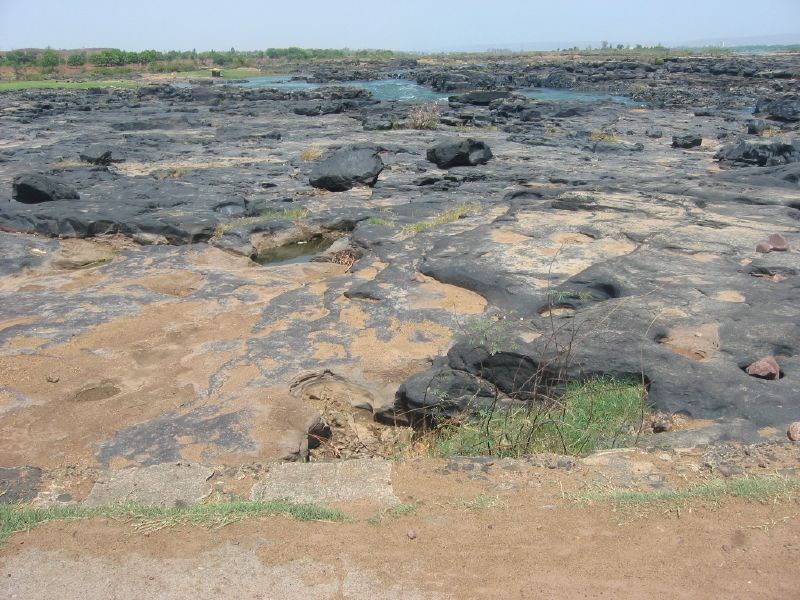 A different view of the Niger River, in the peak of the dry season, from the so-called Submersible Bridge. (Bamako, Mali)